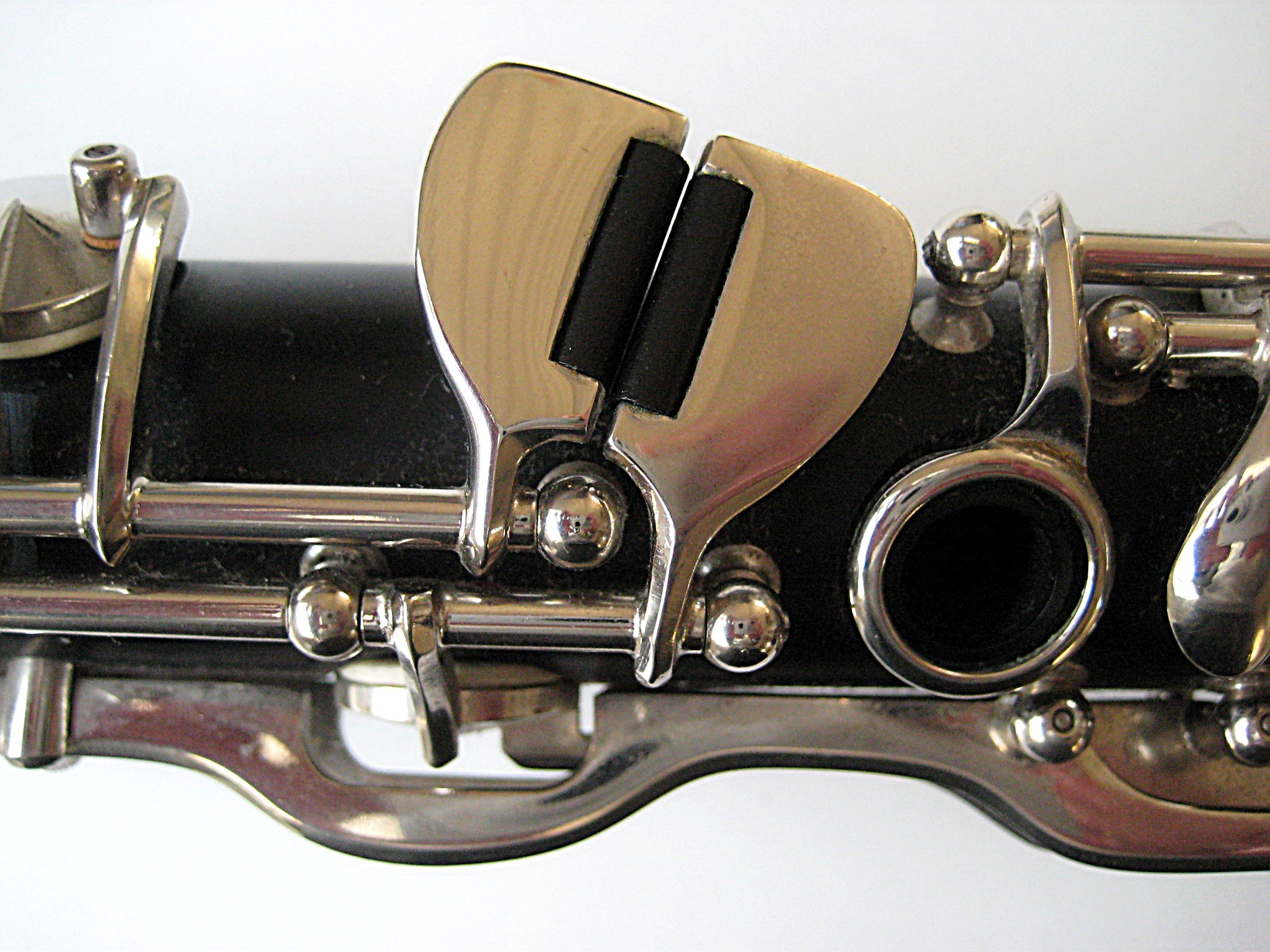 Clarinet